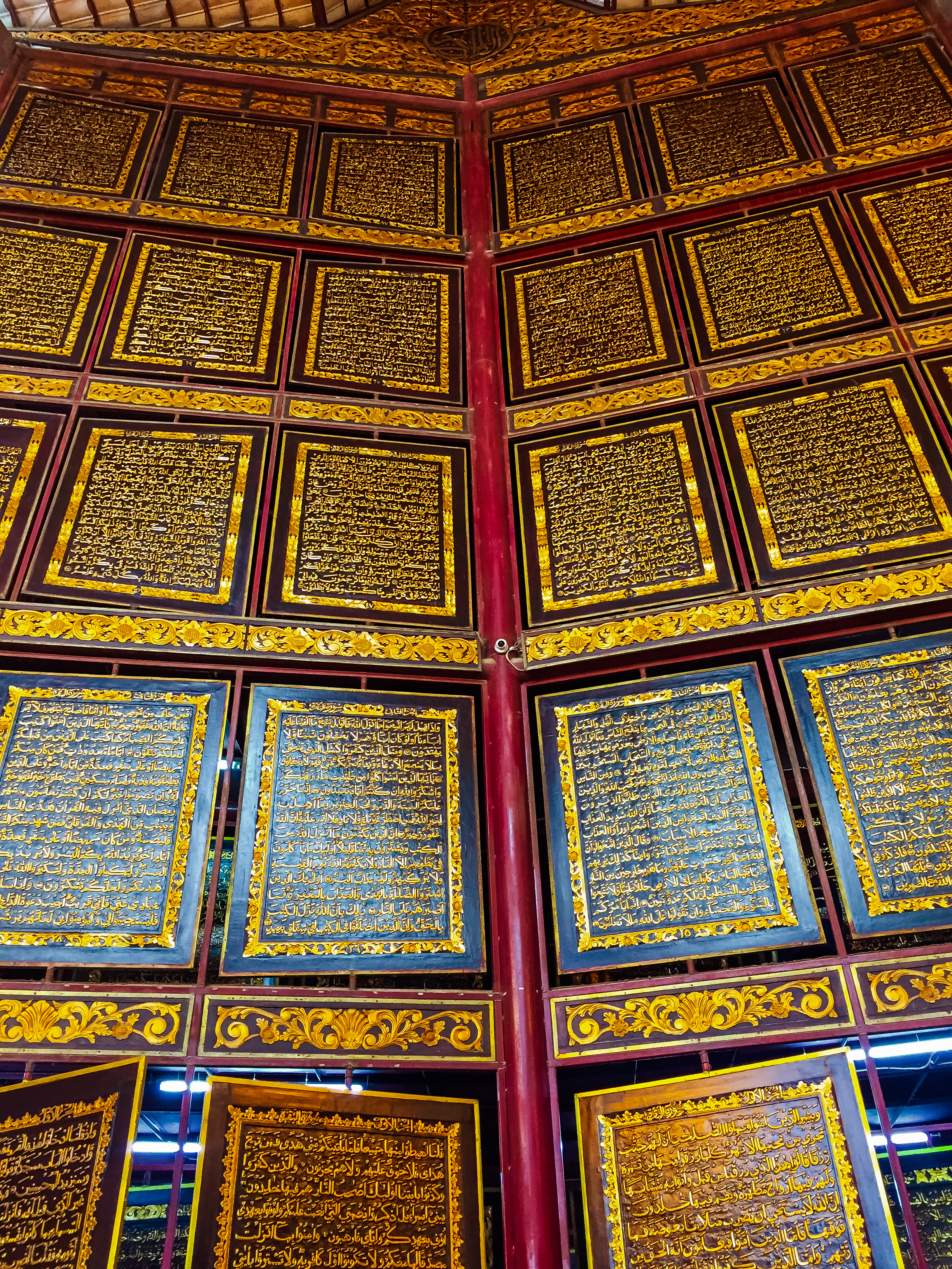 A giant replica of the Quran.